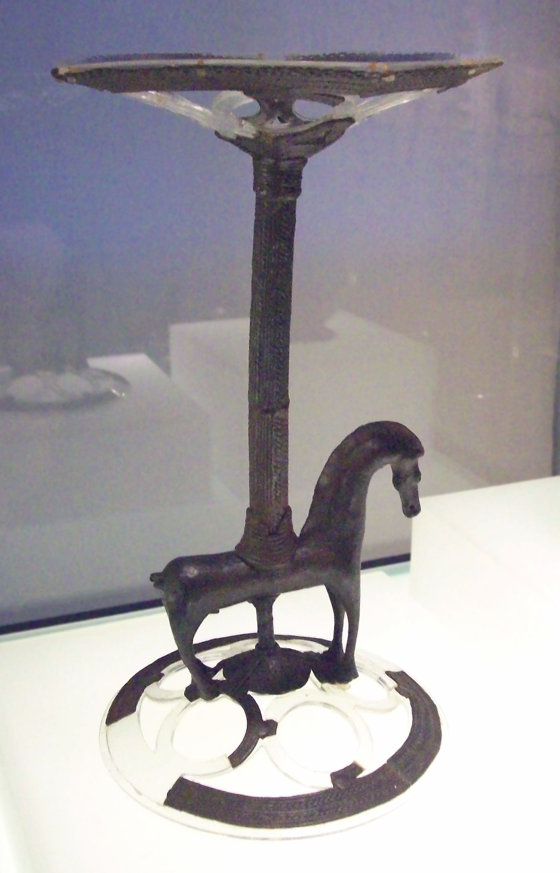 Iberian thymiaterion. Lost-wax bronze casting, dated in the 6th century BC (Iron Age II). Found in 1903 at Les Ferreres necropolis in Calaceite (Province of Teruel, Aragon, Spain).